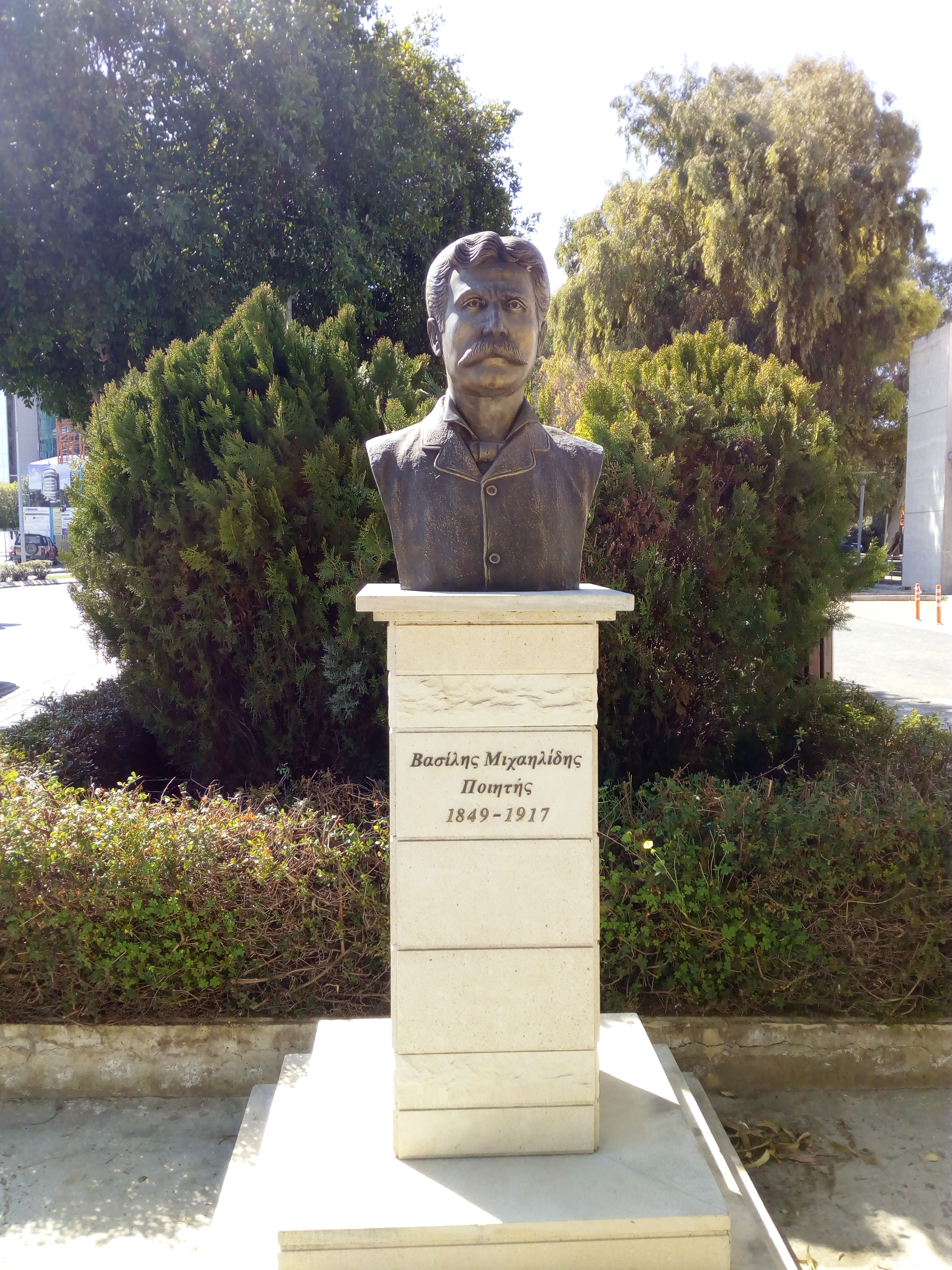 Bust of Vasilis Michailides in Strovolos, Nicosia.